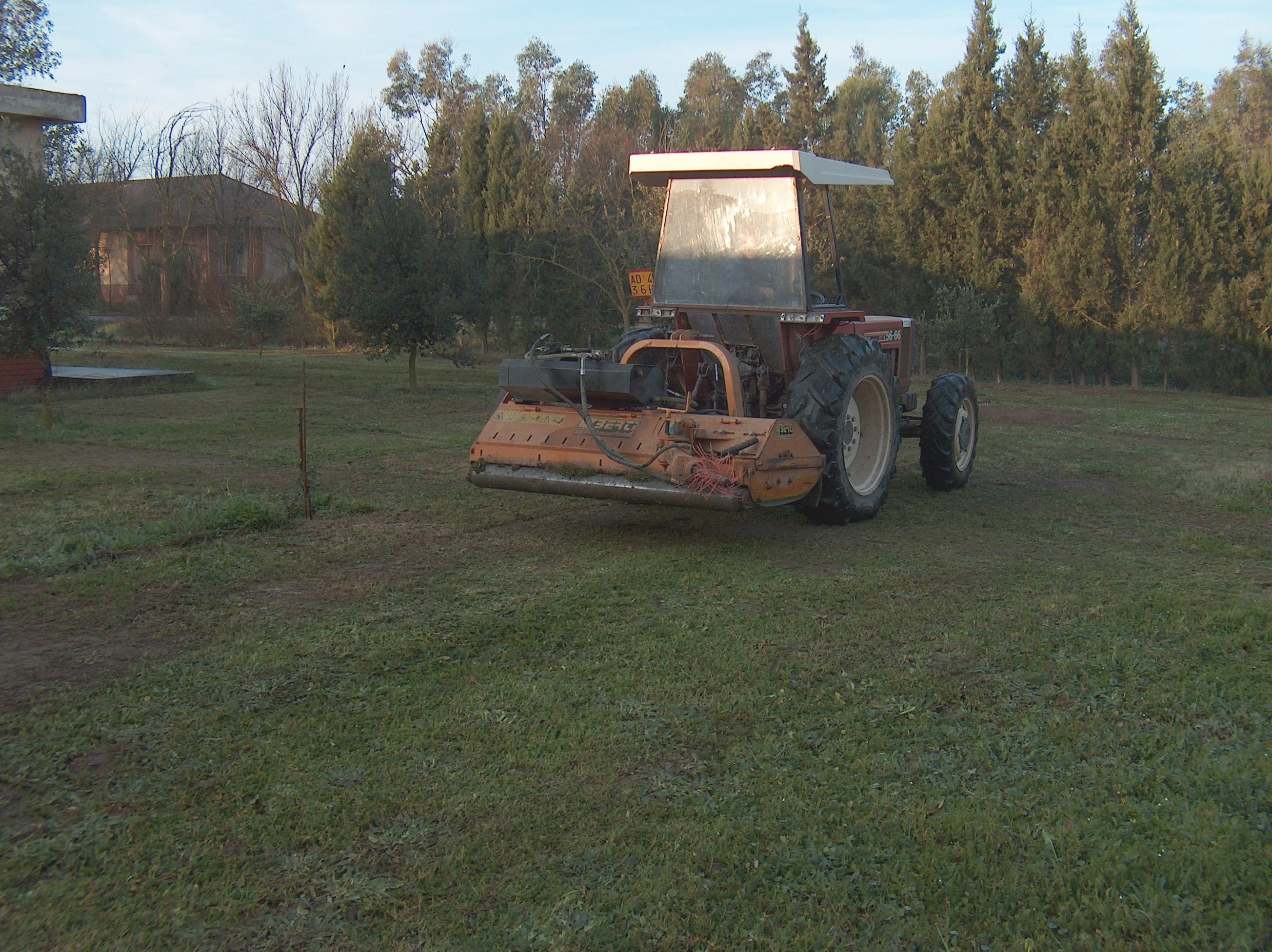 Shredder machine. – Professional Institute of Agriculture and Environment "Cettolini" of Cagliari (Sardinia, Italy) – Associated School of Villacidro (Sardinia, Italy)